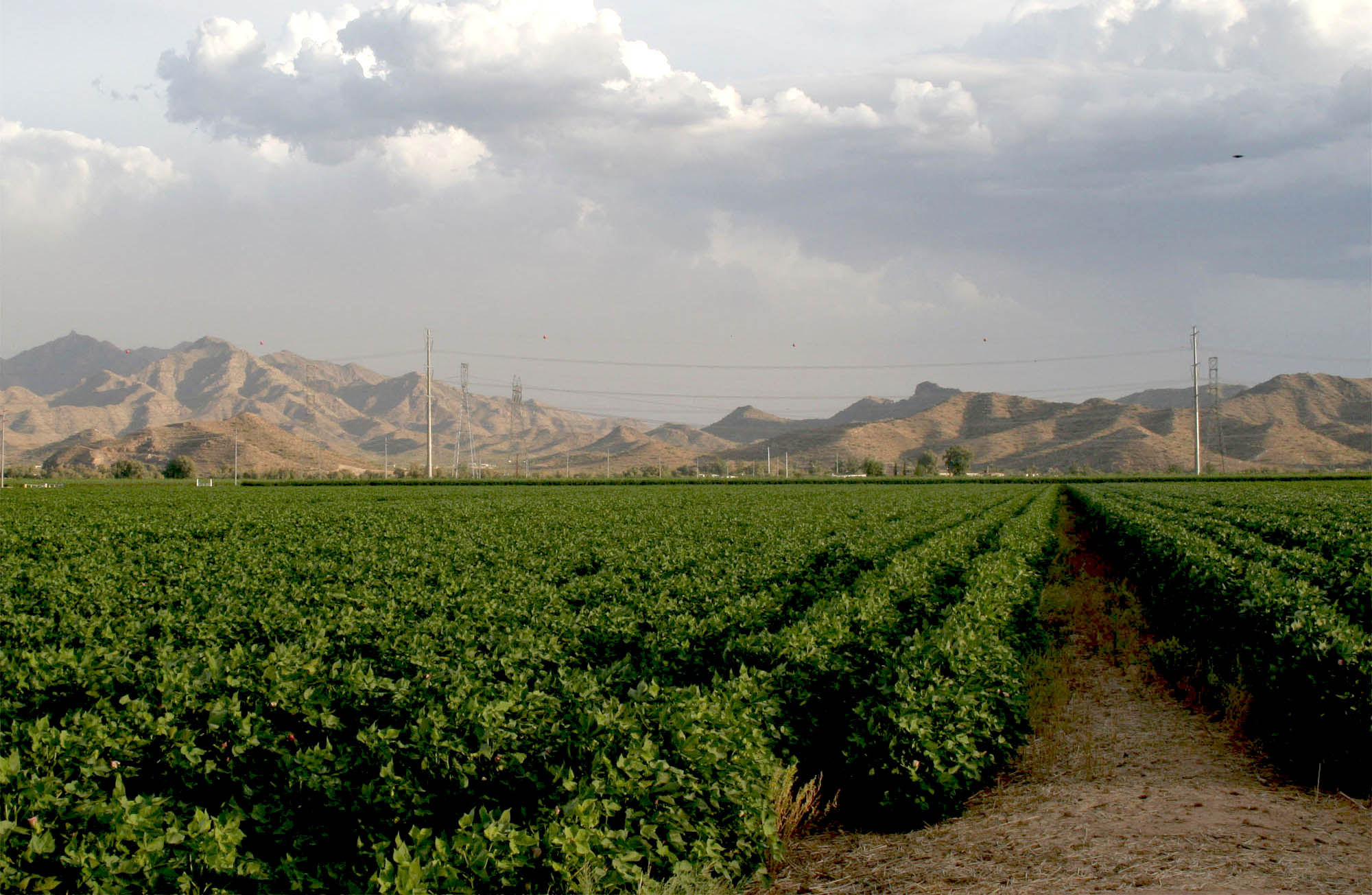 A cotton field outside Phoenix, near Goodyear, AZ.